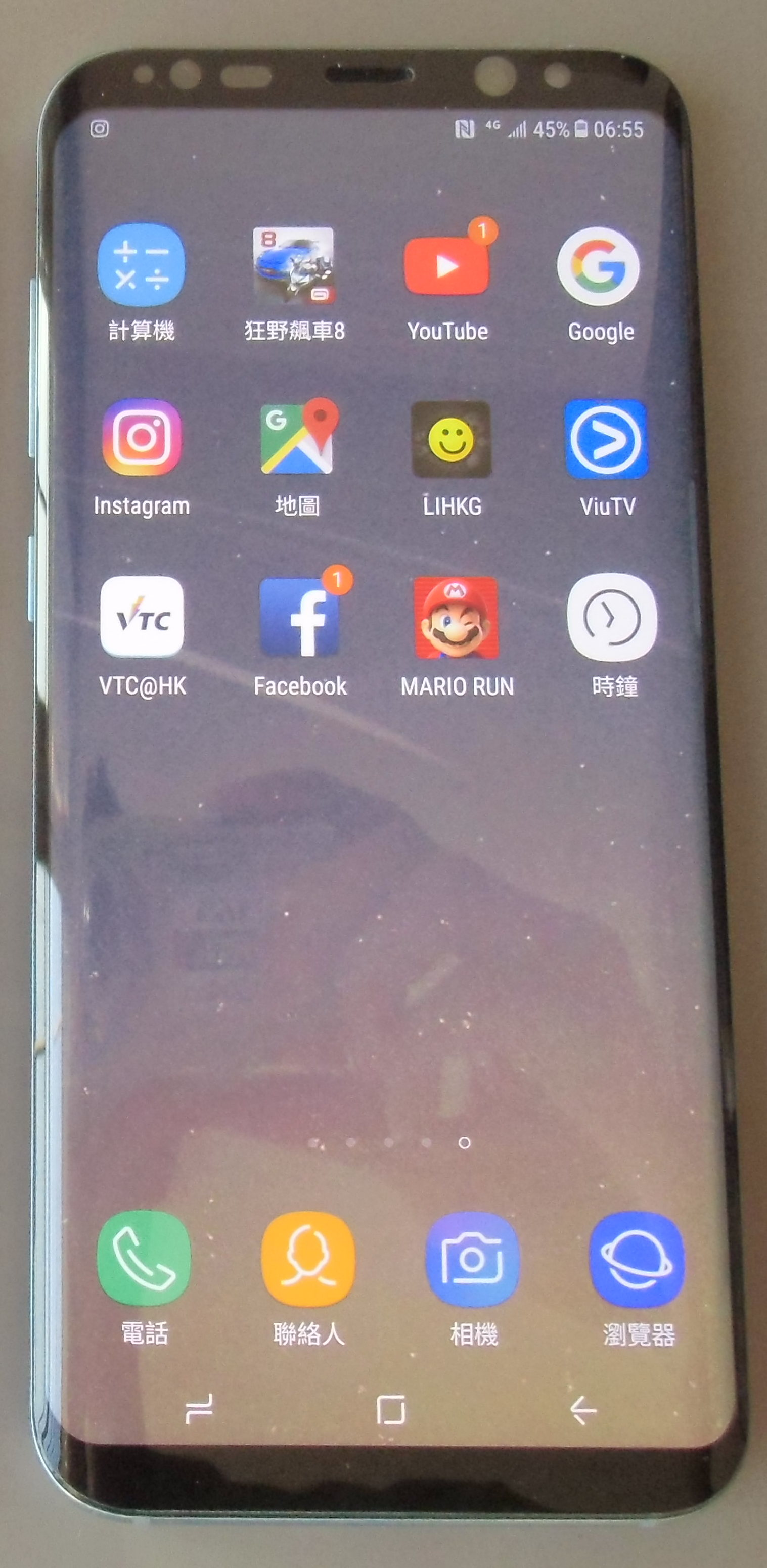 Galaxy S8+ and Pixel XL